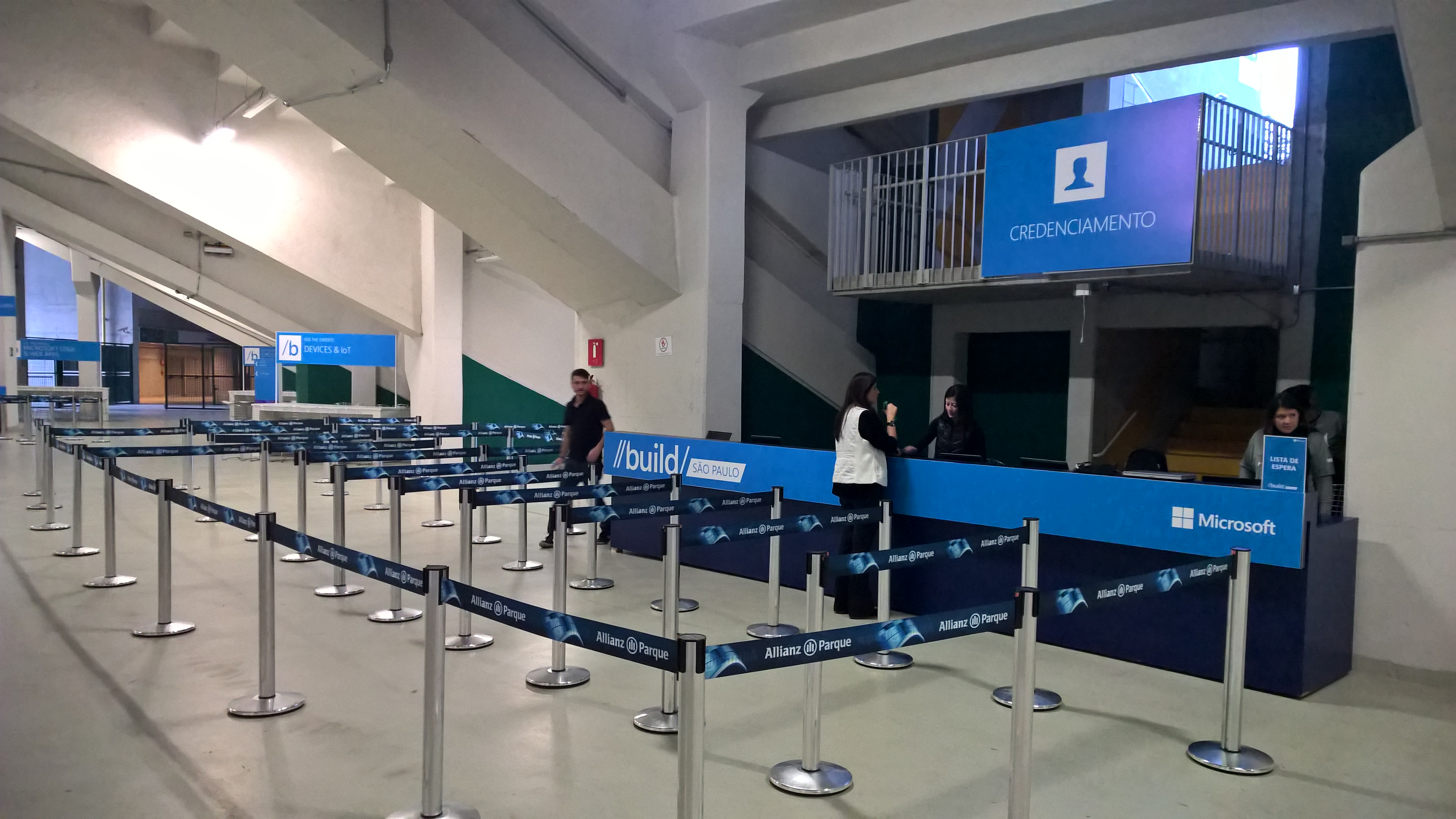 Microsoft Build tour 2015 at Allianz Parque in Sao Paulo, Brazil